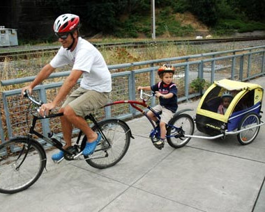 Shows both a tow-behind bike for older children and a trailer for toddlers